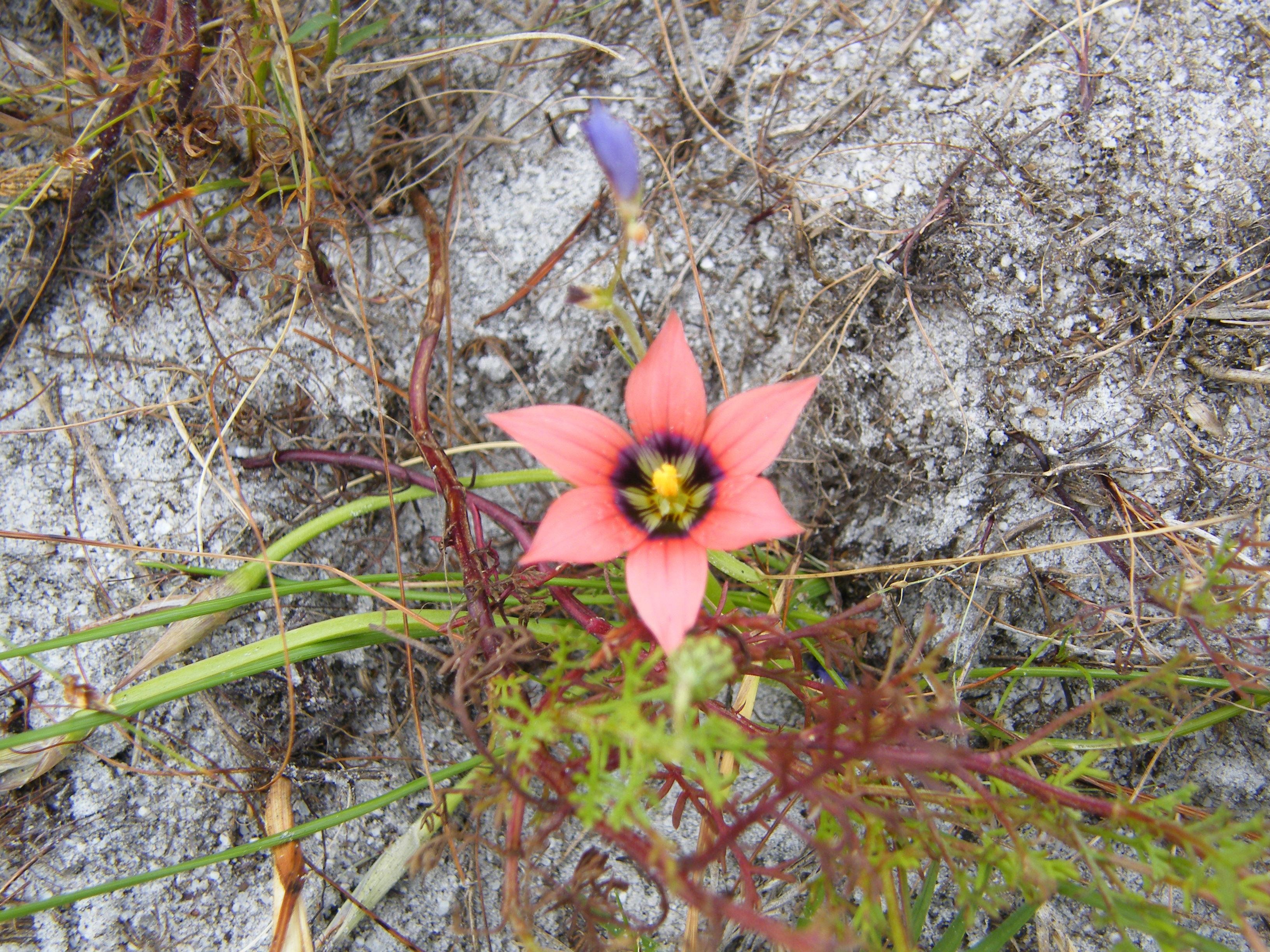 Romulea hirsuta